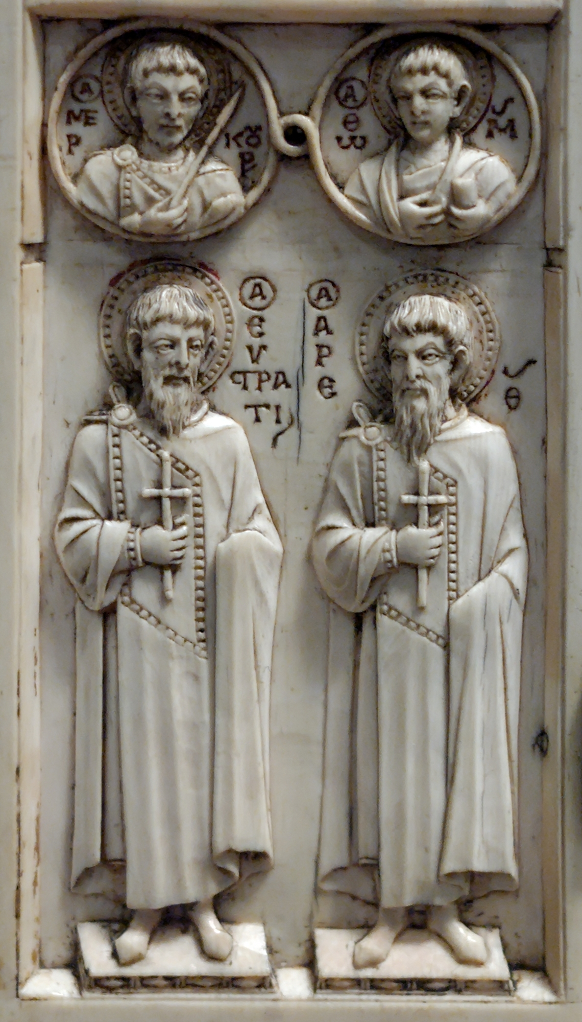 Left to right: St. Eustratius and St. Arethas. In the roundels, St Mercurius and St Thomas the Apostle. Harbaville Triptych: close-up on the bottom panel of the left leaf, recto.